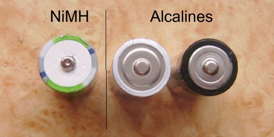 Differences between NiMH or NiCd batteries and alkaline batteries